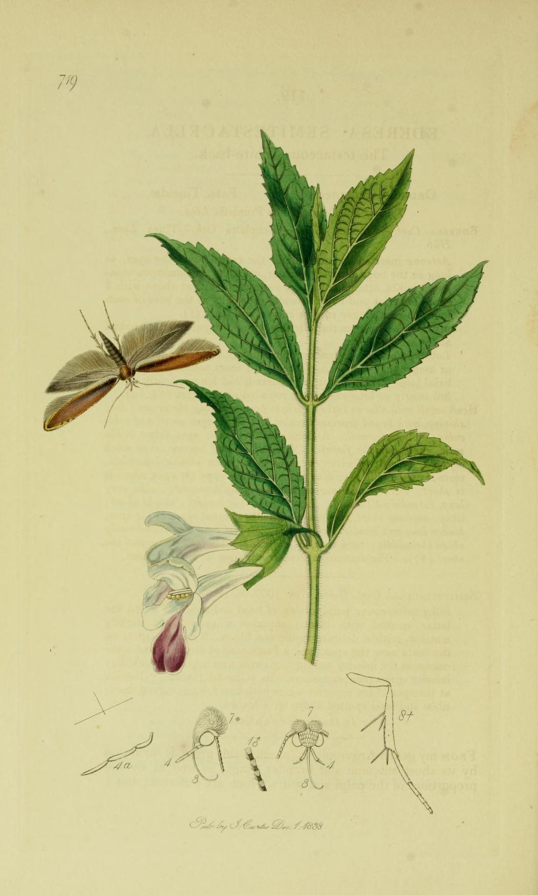 An illustration from British Entomology by John Curtis. Lepidoptera: Ederesa semitestacella Curtis or Argyresthia semitestacella (Curtis), Testaceous White-back